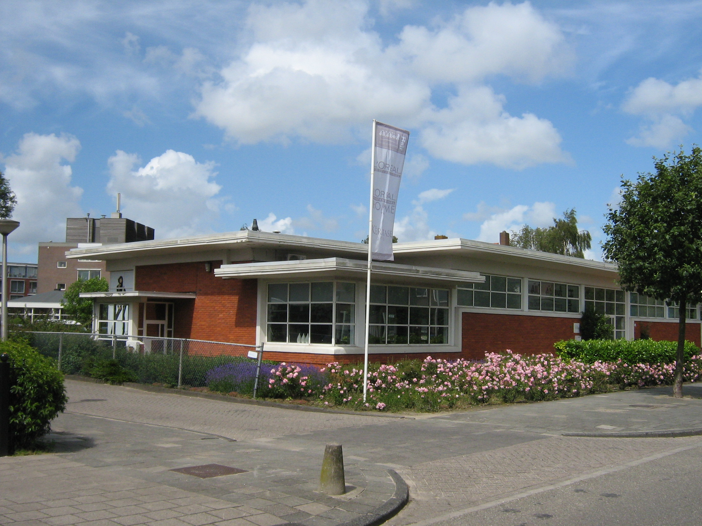 Building at 55 Hadleystraat, Aalsmeer, the Netherlands. This is a national monument registered as object 526212. At the time of the photo, a hairdresser's and a GP practice occupied the left- and right-hand side of the building, respectively.